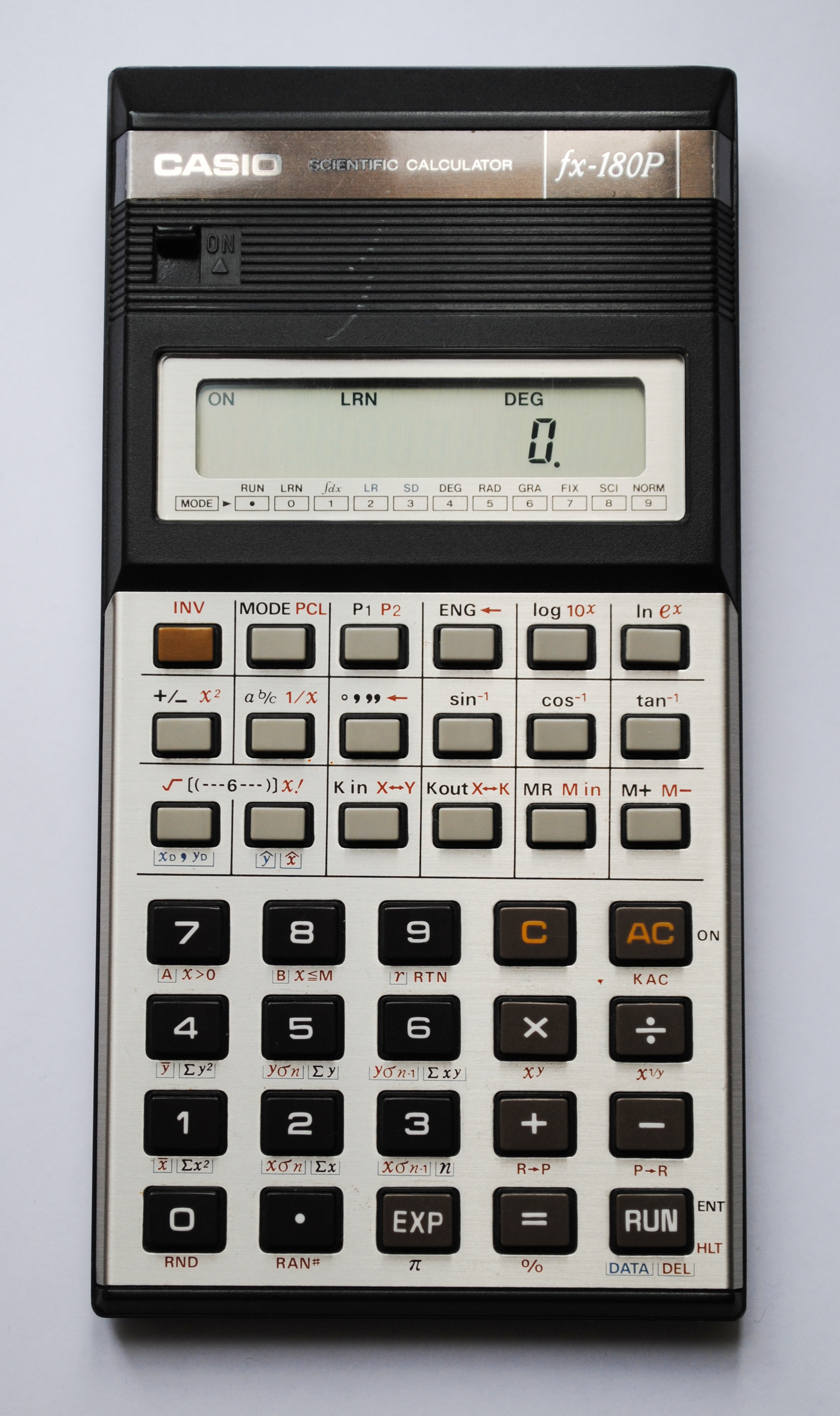 CASIO scientific calculator fx-180P.